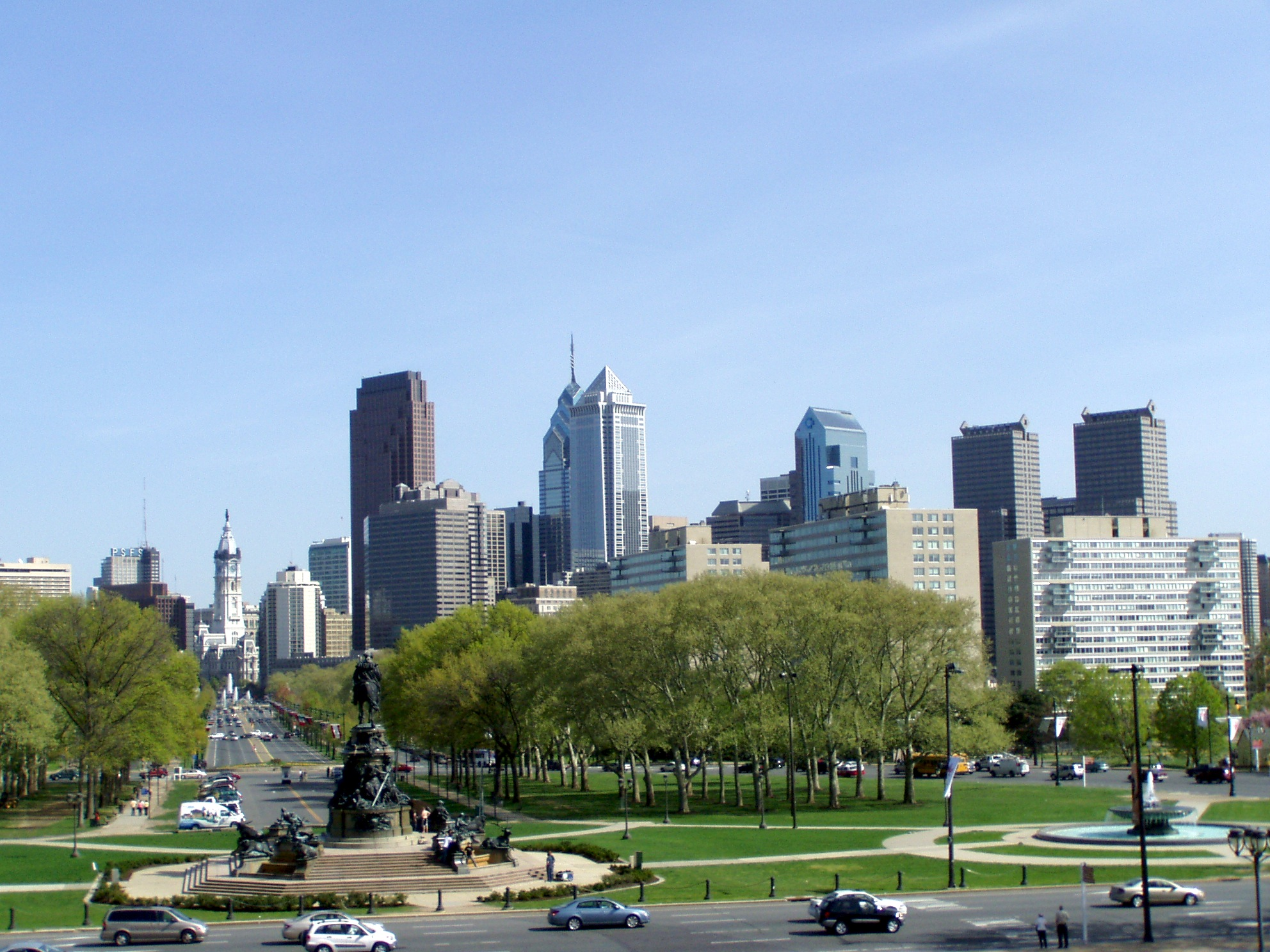 Taken in Philadelphia, Pennsylvania, in April 2006. The Philadelphia skyline. This view, from the steps of the Philadelphia Museum of Art, shows the Benjamin Franklin Parkway (running from Art Museum Circle in the foreground to Philadelphia City Hall in the far left) and the skyscrapers of Center City. A version of this image appears in Sustainlane's How Green Is Your City? (ISBN 978-0-86571-595-0).